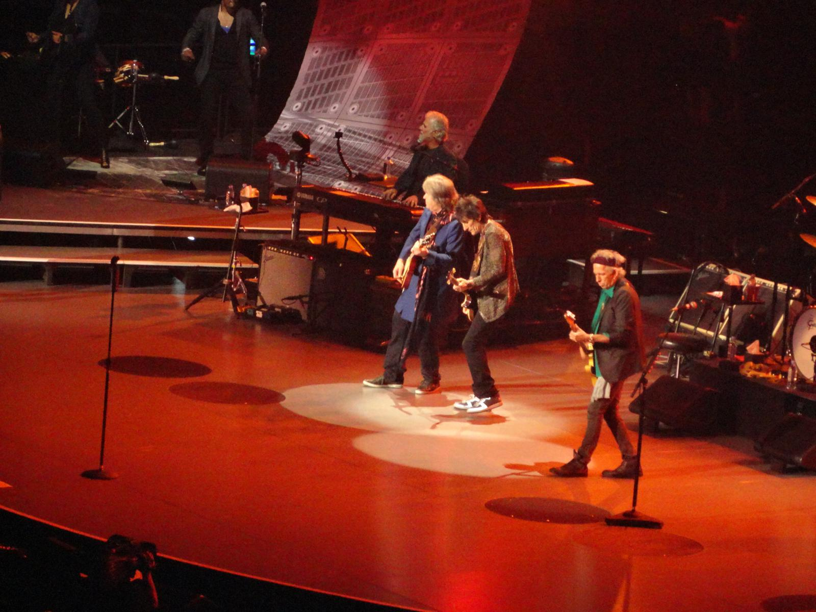 The Rolling Stones "50 And Counting Tour"-Boston, MA. June 12, 2013 The incredible Rolling Stones-Mick Jagger, Keith Richards-guitar, Charlie Watts-drums, Ron Wood-guitar, and Mick Taylor-guitar (seen in blue); 50 + years together.